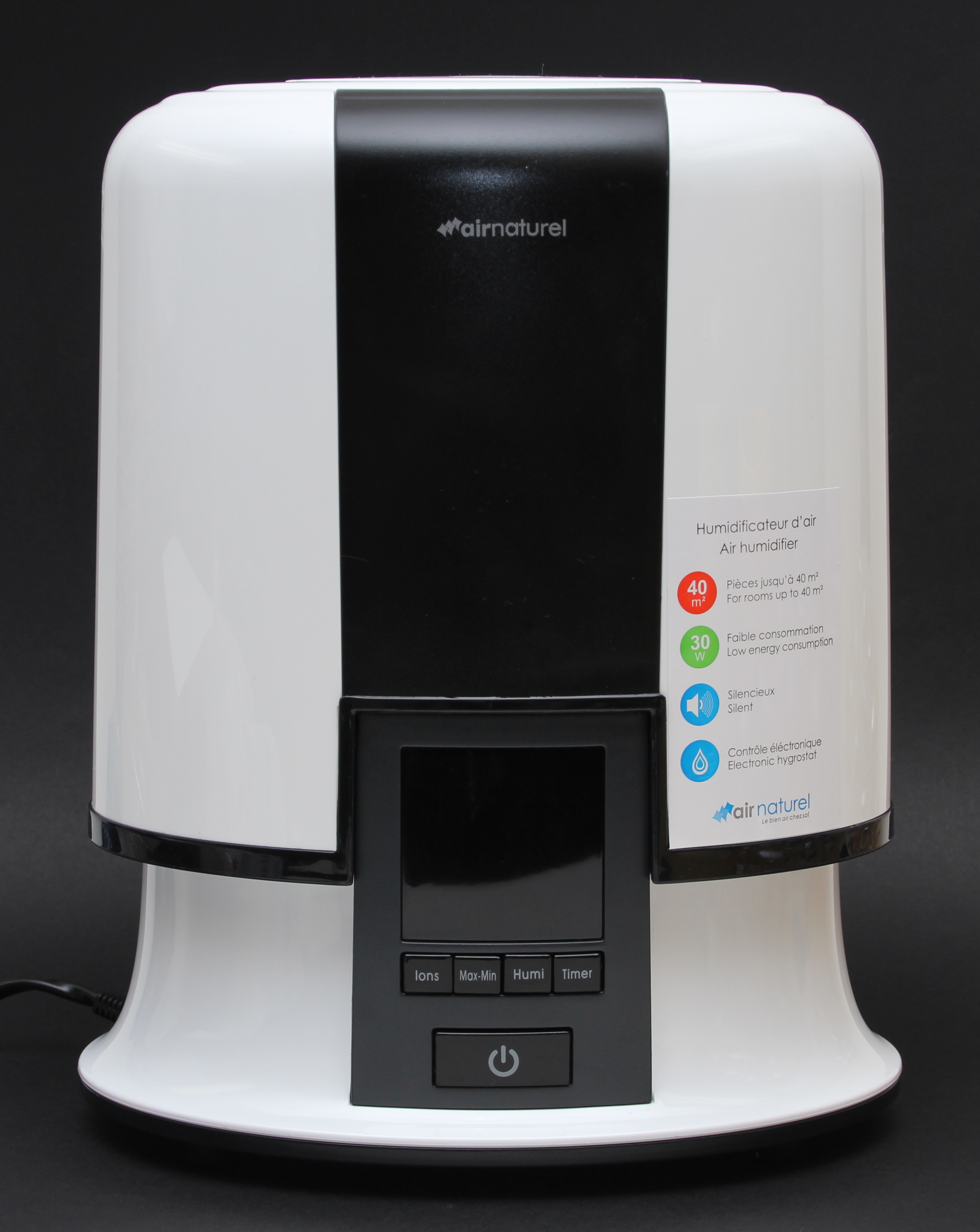 Air Naturel air humidifier